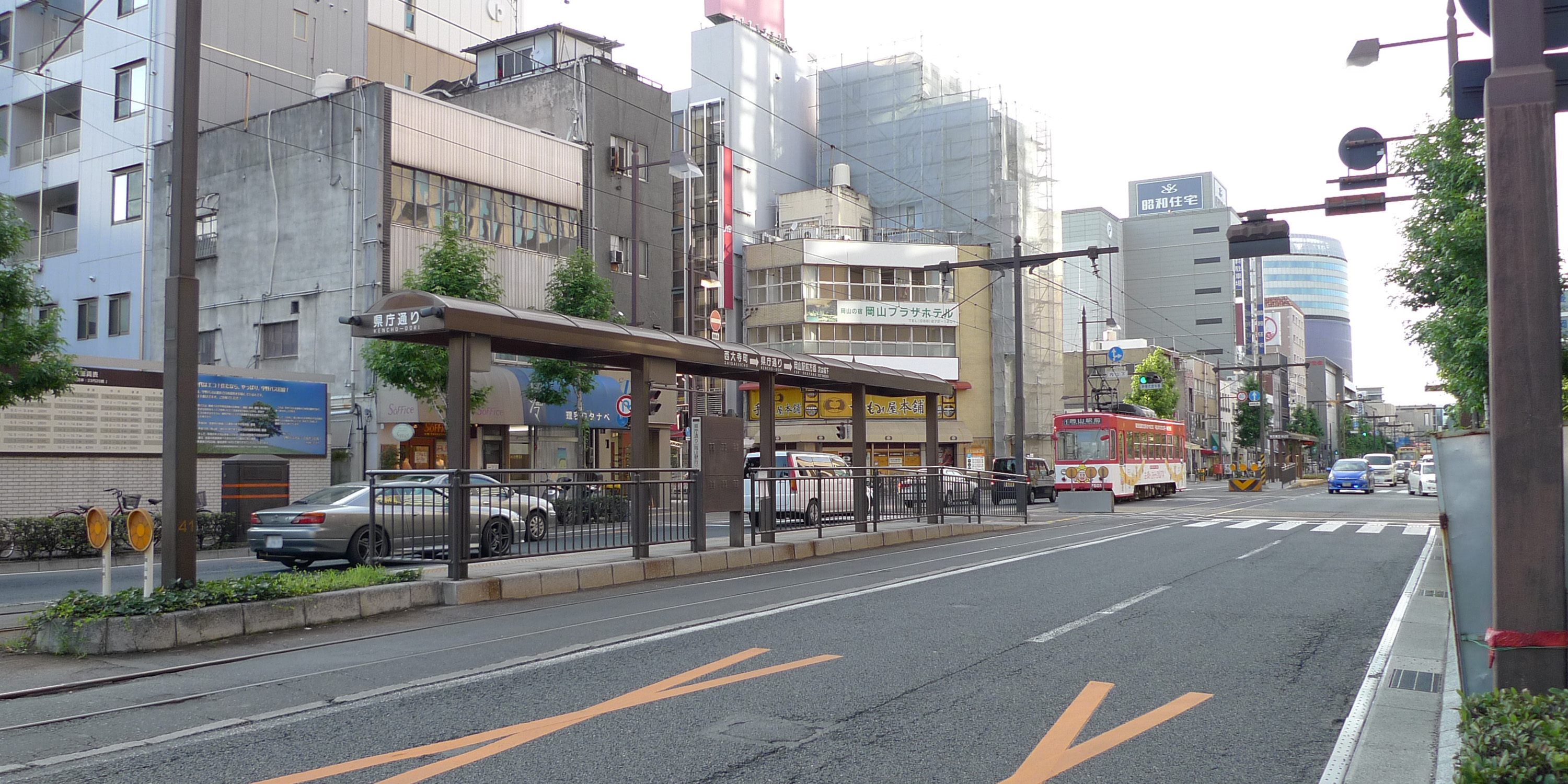 Okayama Electric Tramway Kenchodori Station